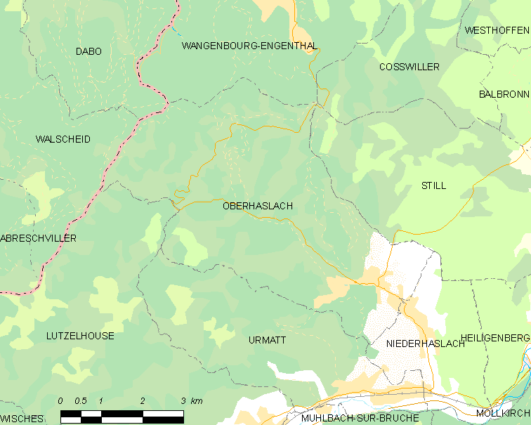 Map of French municipality